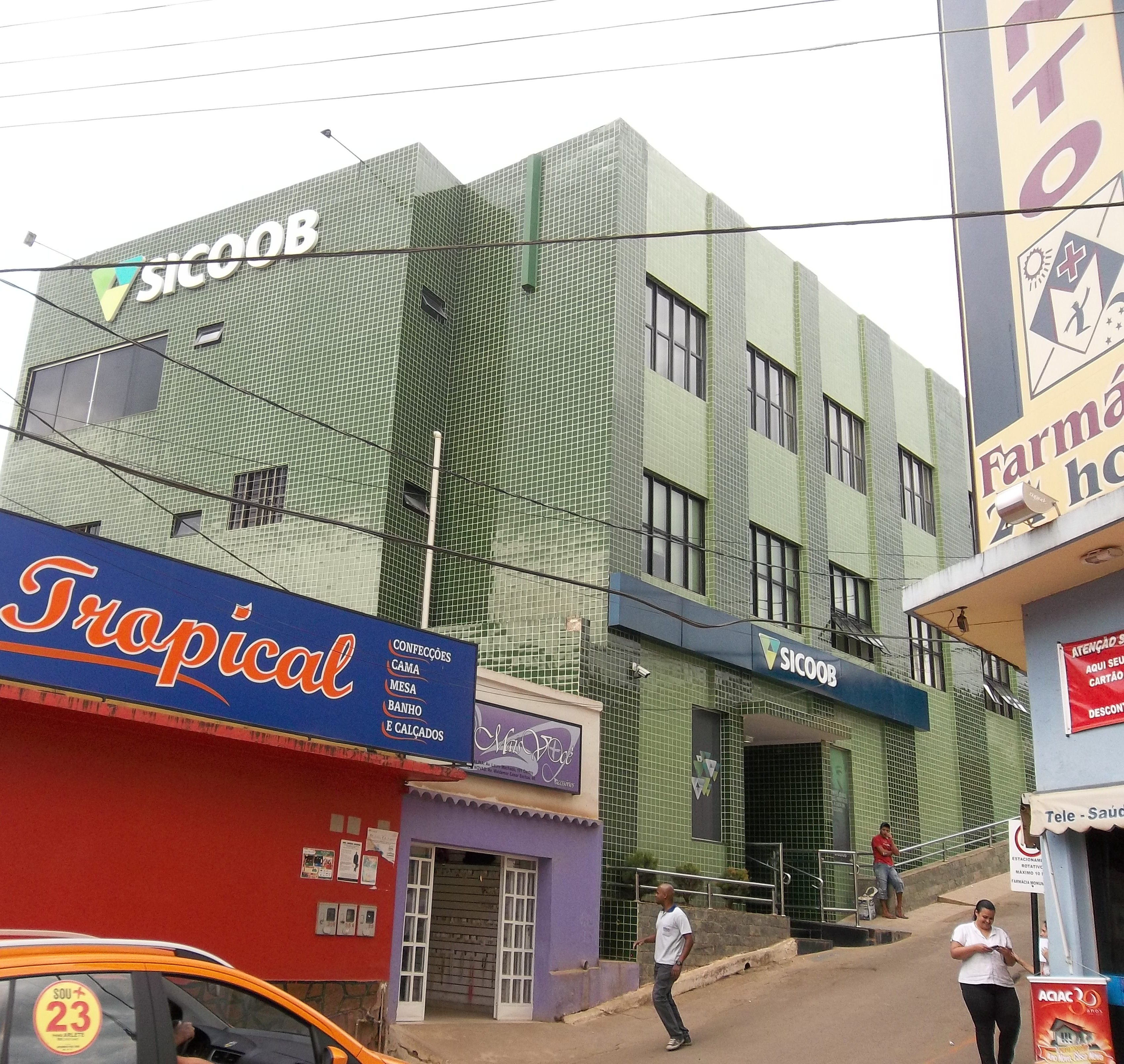 Prédio do SICCOB que possui agência em Capelinha